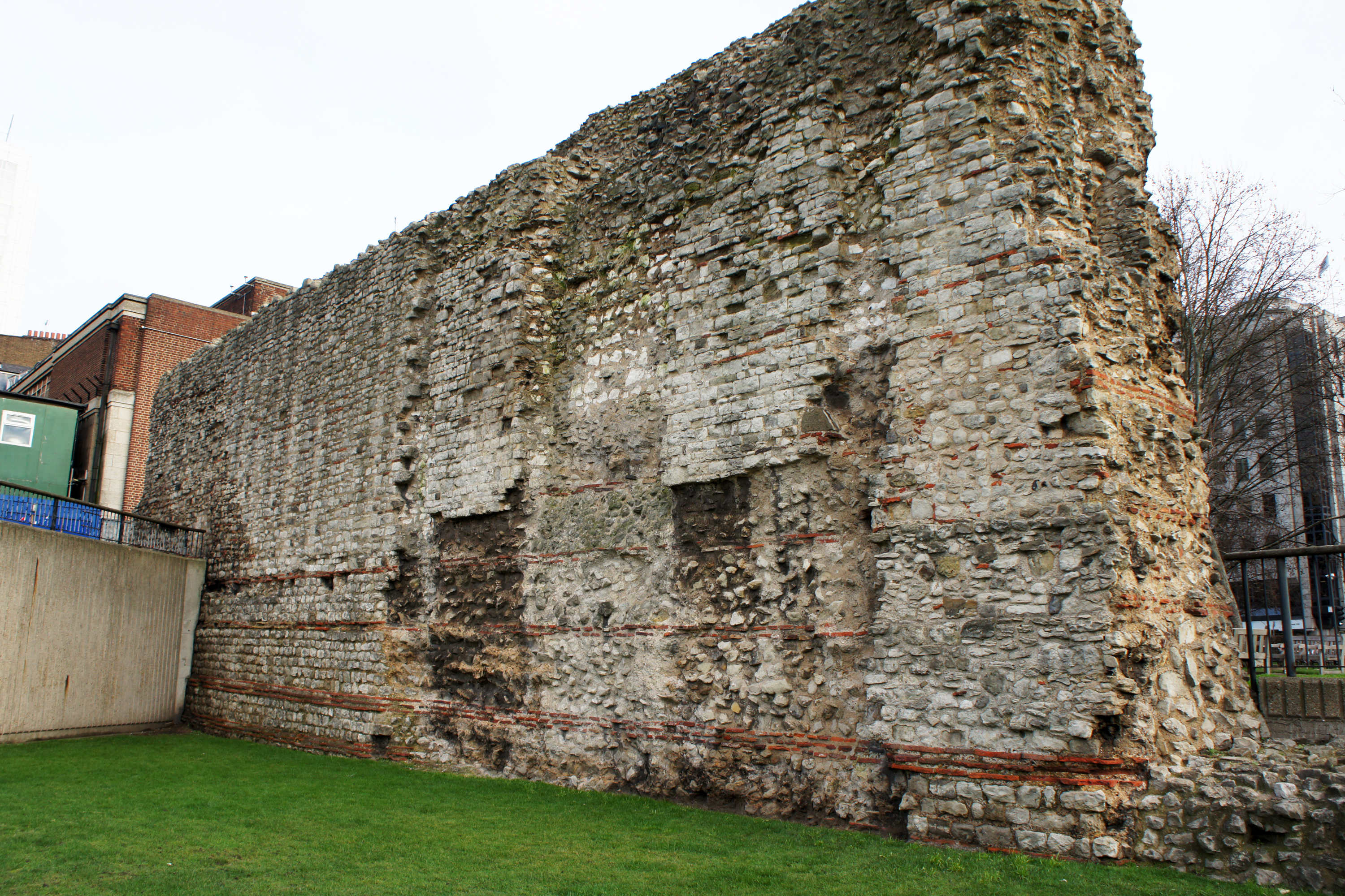 Surviving section of the city of London Roman wall near Tower Hill Tube station.